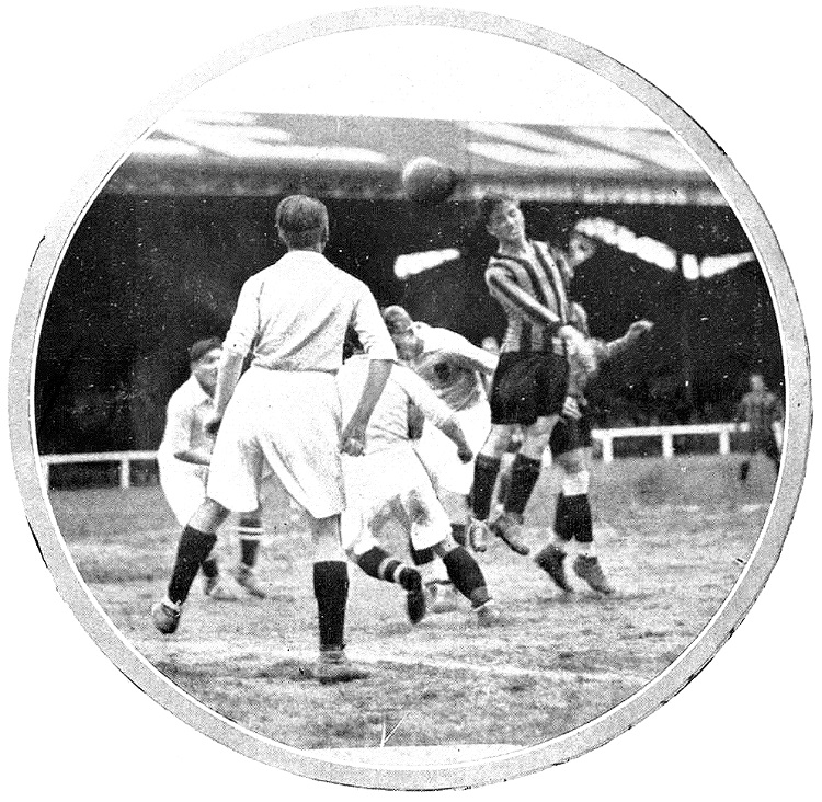 Exhibition game between the Uruguayan CA Peñarol and a Paris city-selection in the Stade Buffalo in the Parisian suburb of Montrouge on May 29, 1927. The match was part of an extensive tour through Europe by the Uruguayan team and ended in a 1ː1 draw.